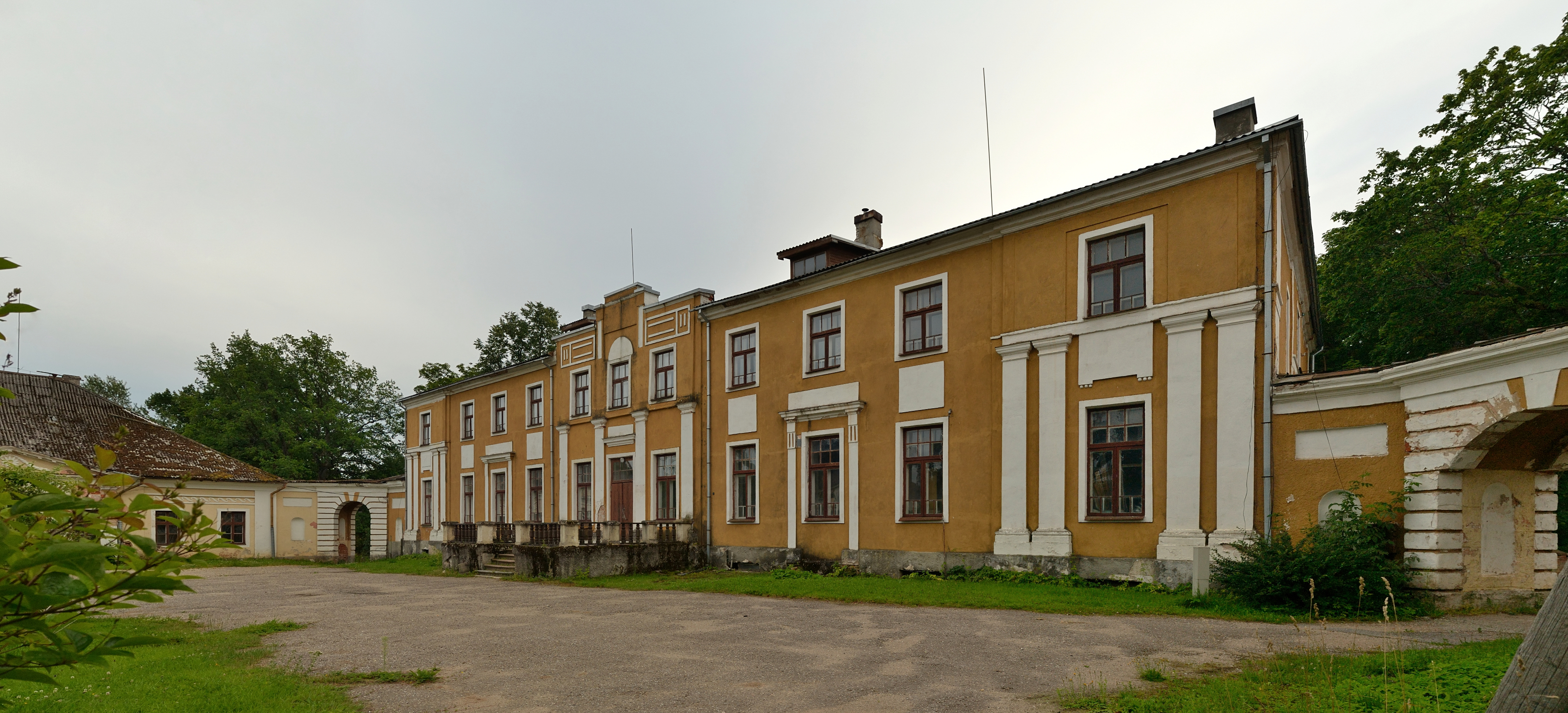 Väimela manor main building